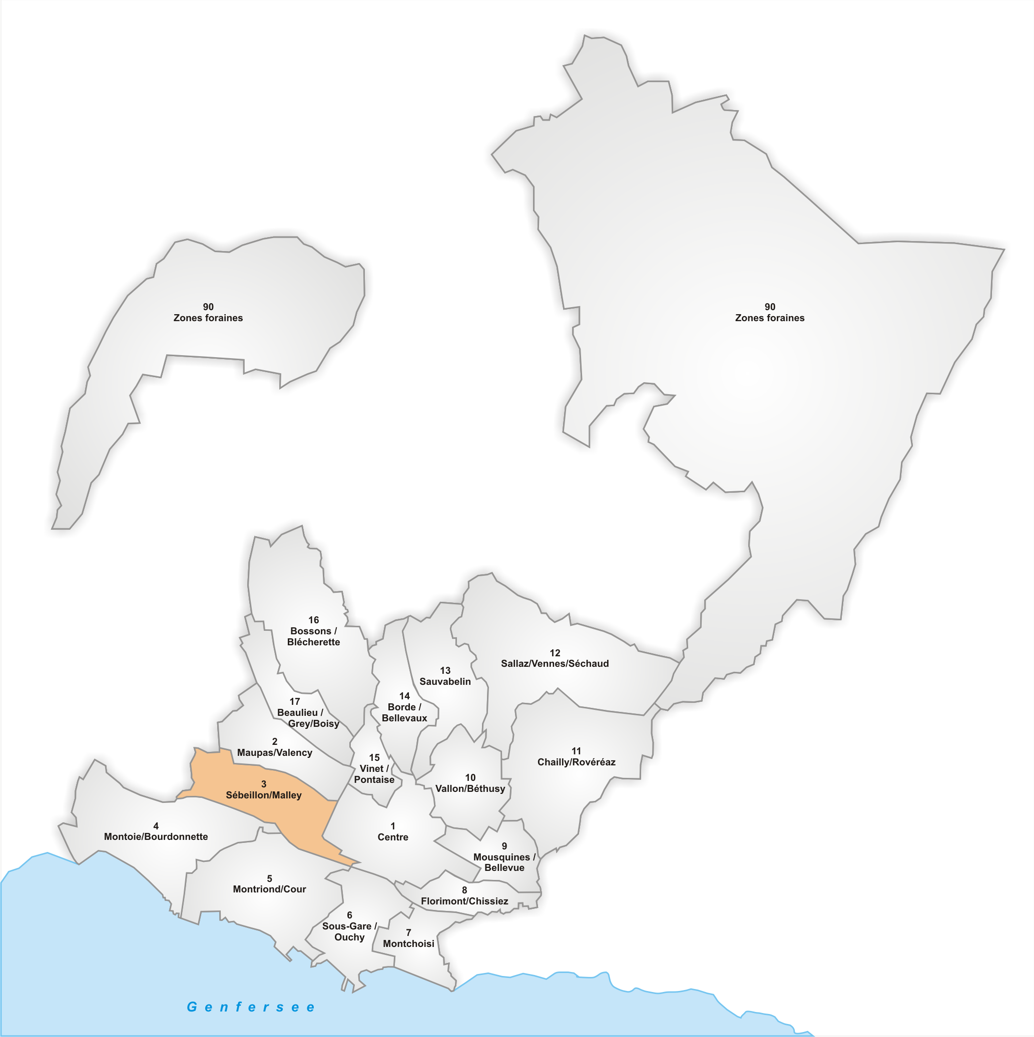 Lausanne Quarter 3